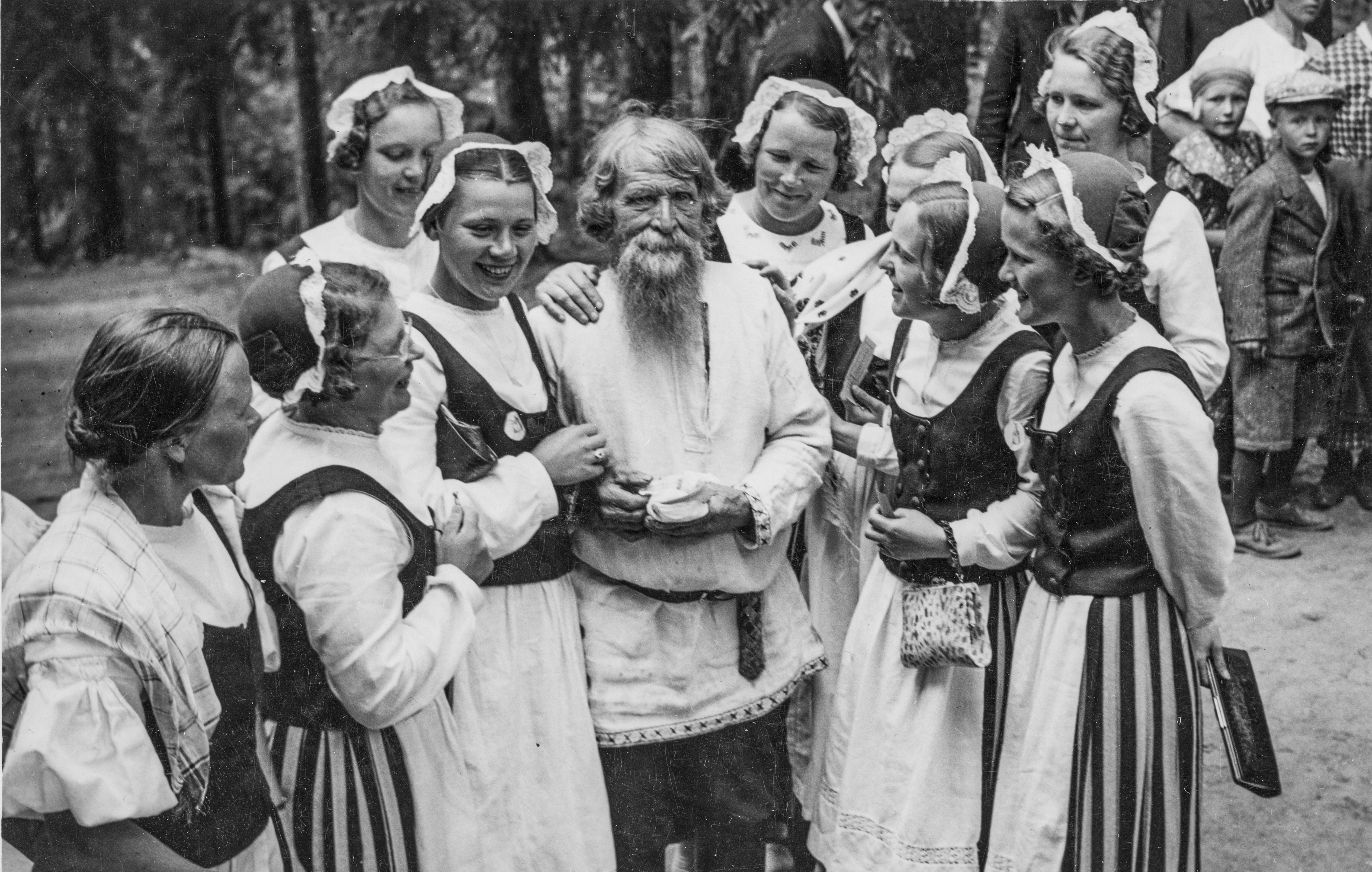 Runonlaulaja ja kanteleensoittaja Timo Lipitsä Sortavalan laulujuhlilla 1935. / Poetry singer and Finnish Zither player Timo Lipitsä at Sortavala Singing Festival in 1935. 29-30.6.1935 Sortavala silver gelatin print / hopeagelatiinivedos The Finnish Museum of Photography / Suomen valokuvataiteen museo Contact / Ota yhteyttä